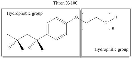 Structure of titron